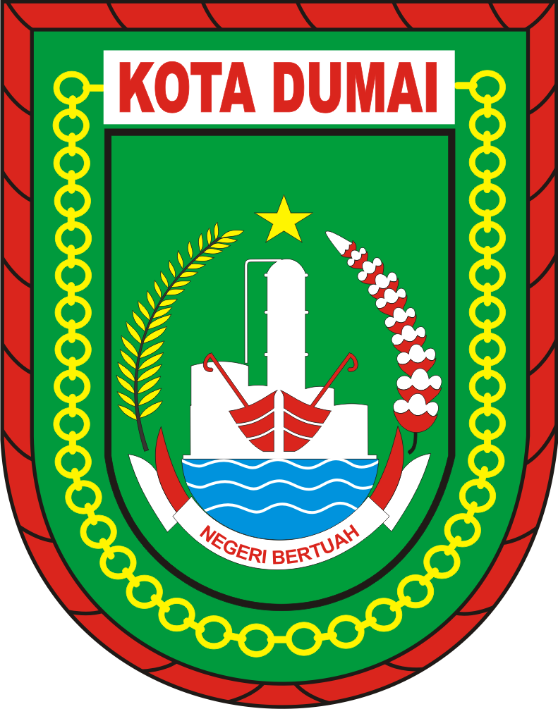 Siled of the city of Dumai (Indonesia)